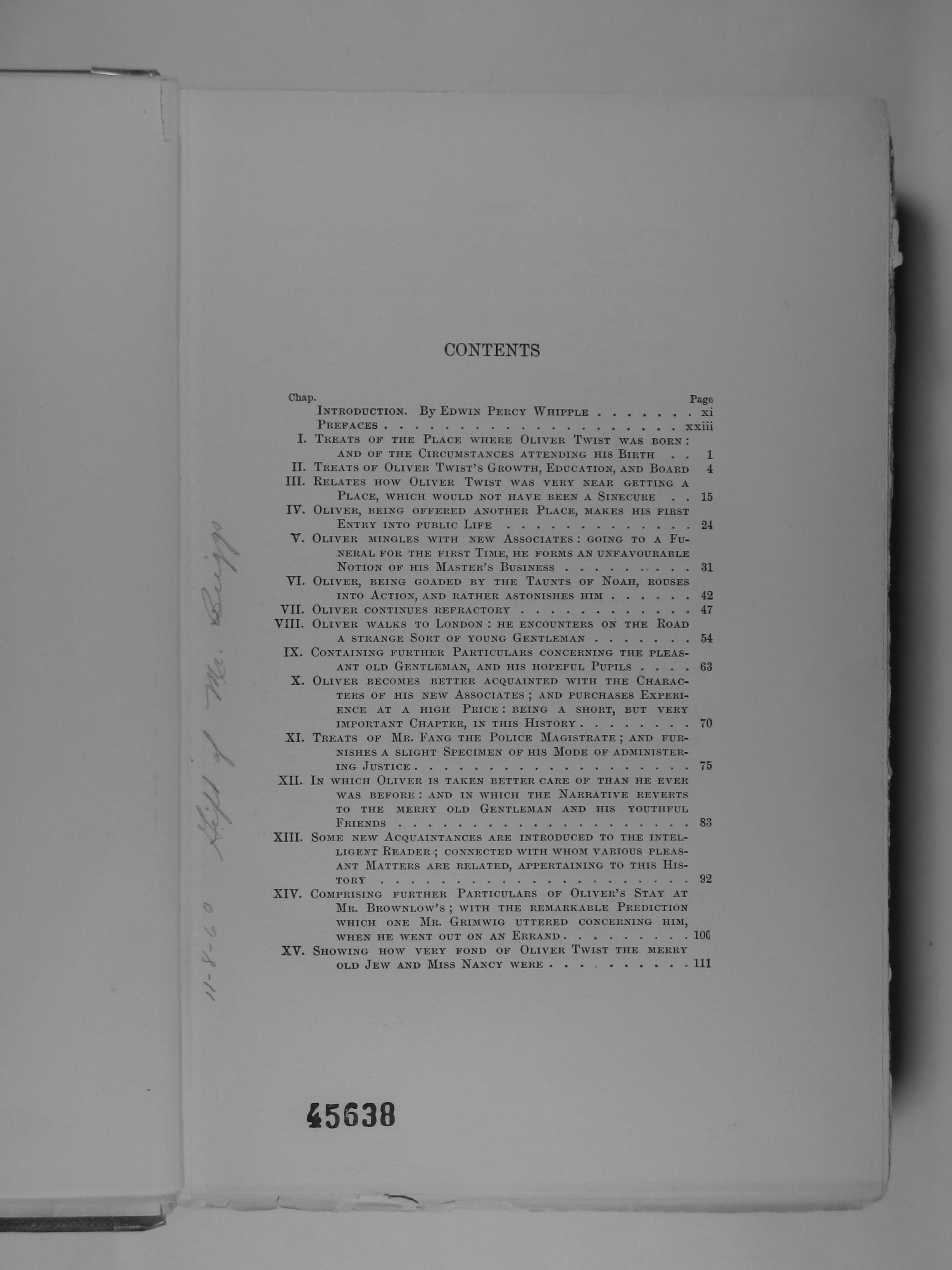 A photograph of the table of contents in The Writings of Charles Dickens volume 4, Oliver Twist.